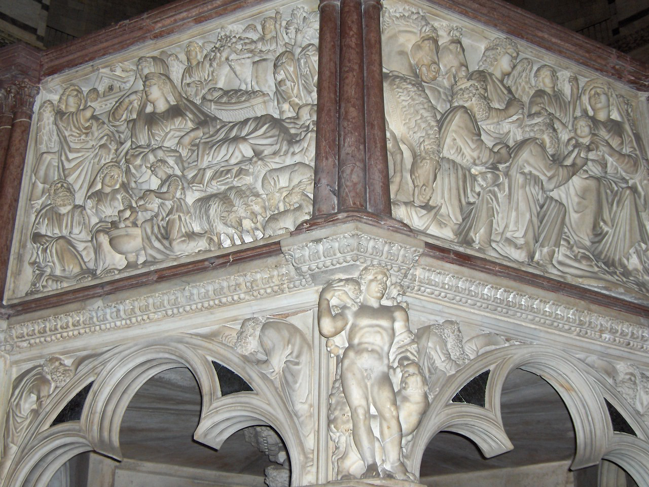 Pisa, Italy - Baptistry : pulpit (detail) by Nicola Pisano Photo taken by me on 10 October 2005